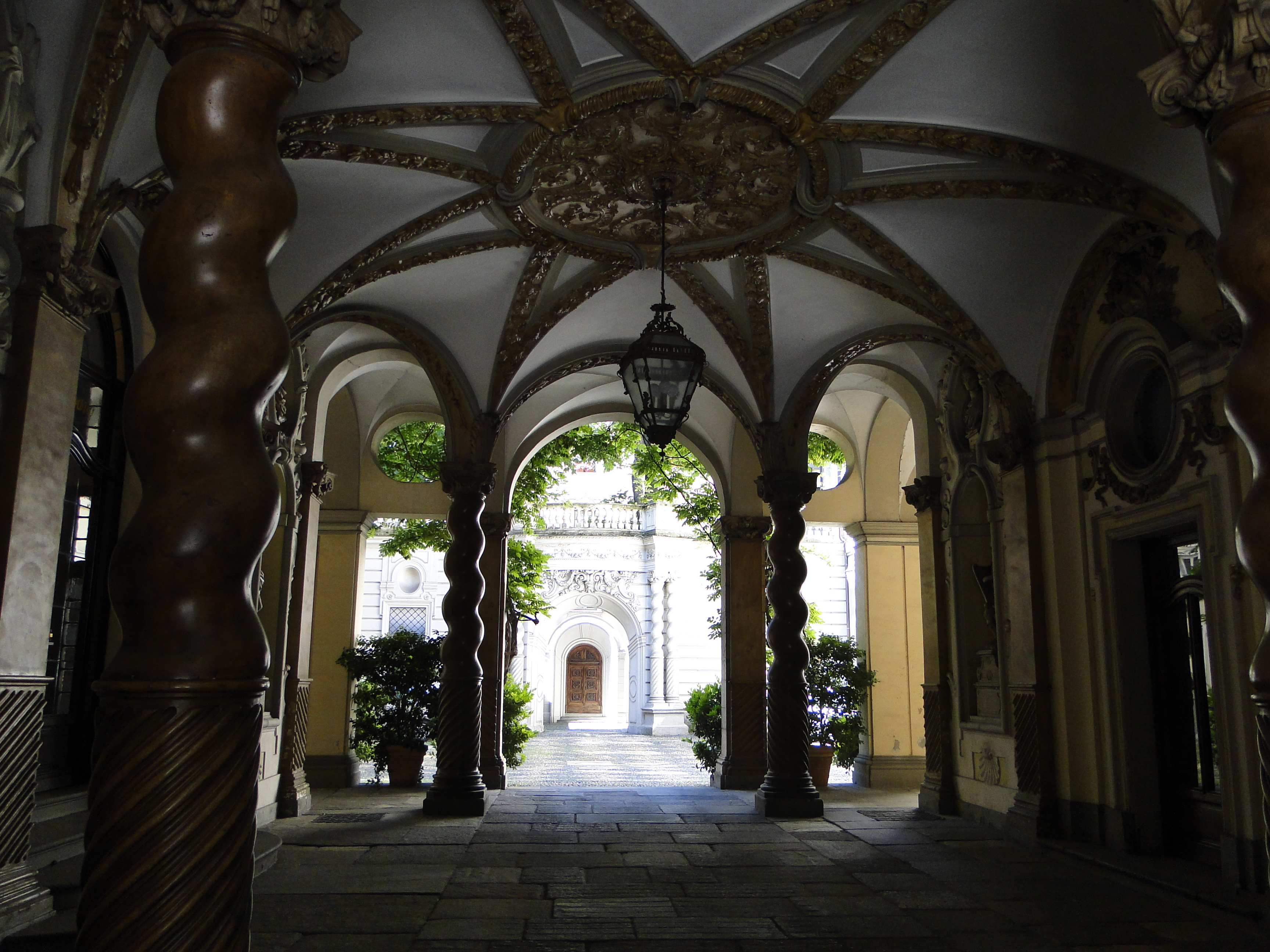 Entrance of the Palace Turati (or Palace of Asinari di San Marzano) in Turin